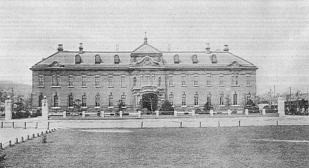 Sapporo Court of Appeals